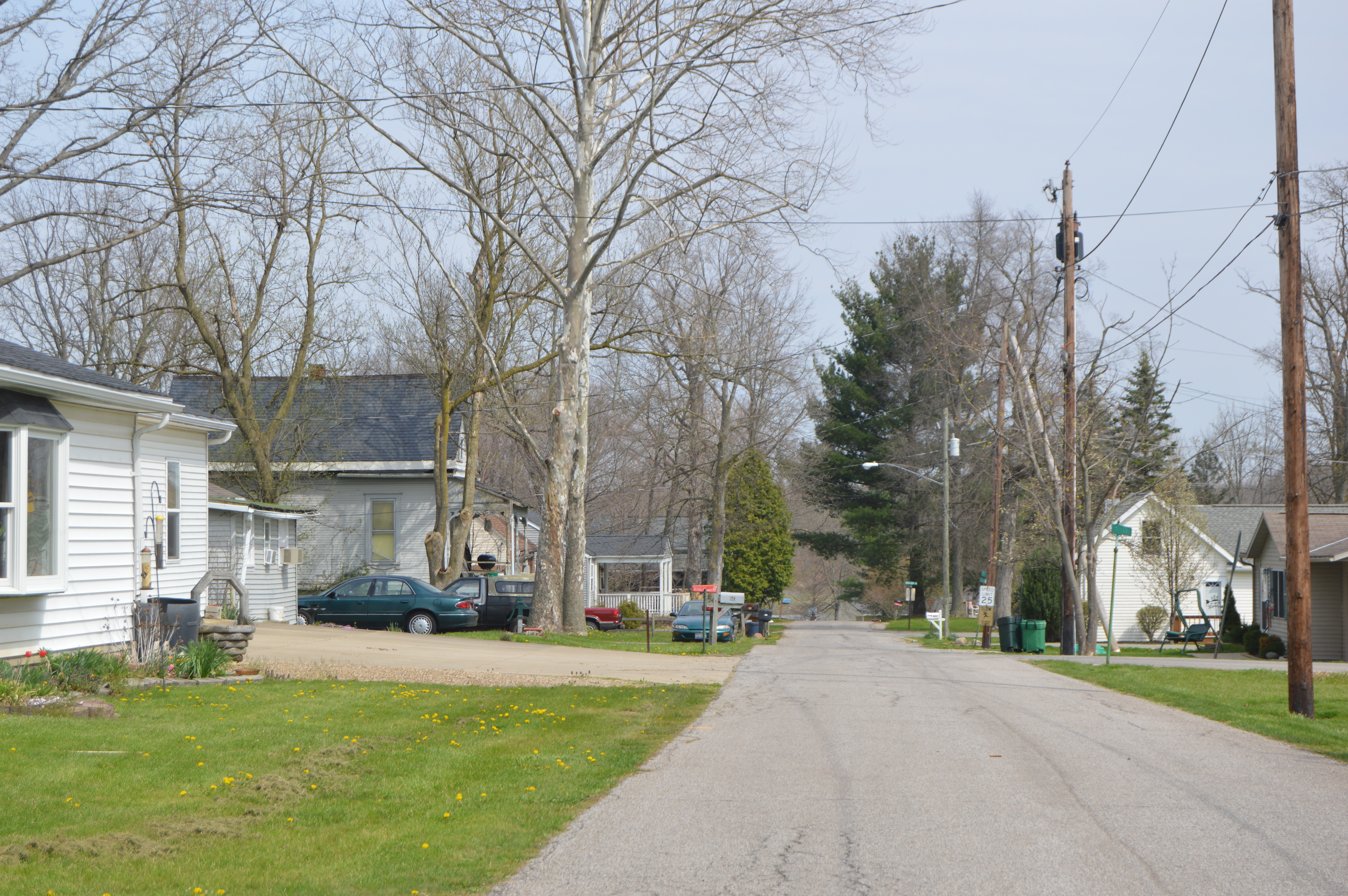 Looking north on Lake Drive from Center Road in Bailey Lakes, Ohio, United States.